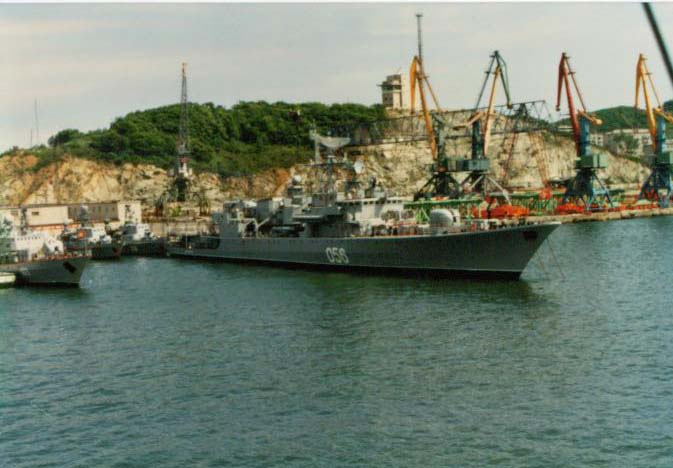 Inside Nakhodka Bay, small warships were mooed in the bay. Here are project 1135.1 border guard ship Menzhinskiy (056), a project 1241.2 border guard ship and two project 205-P border guard ships.